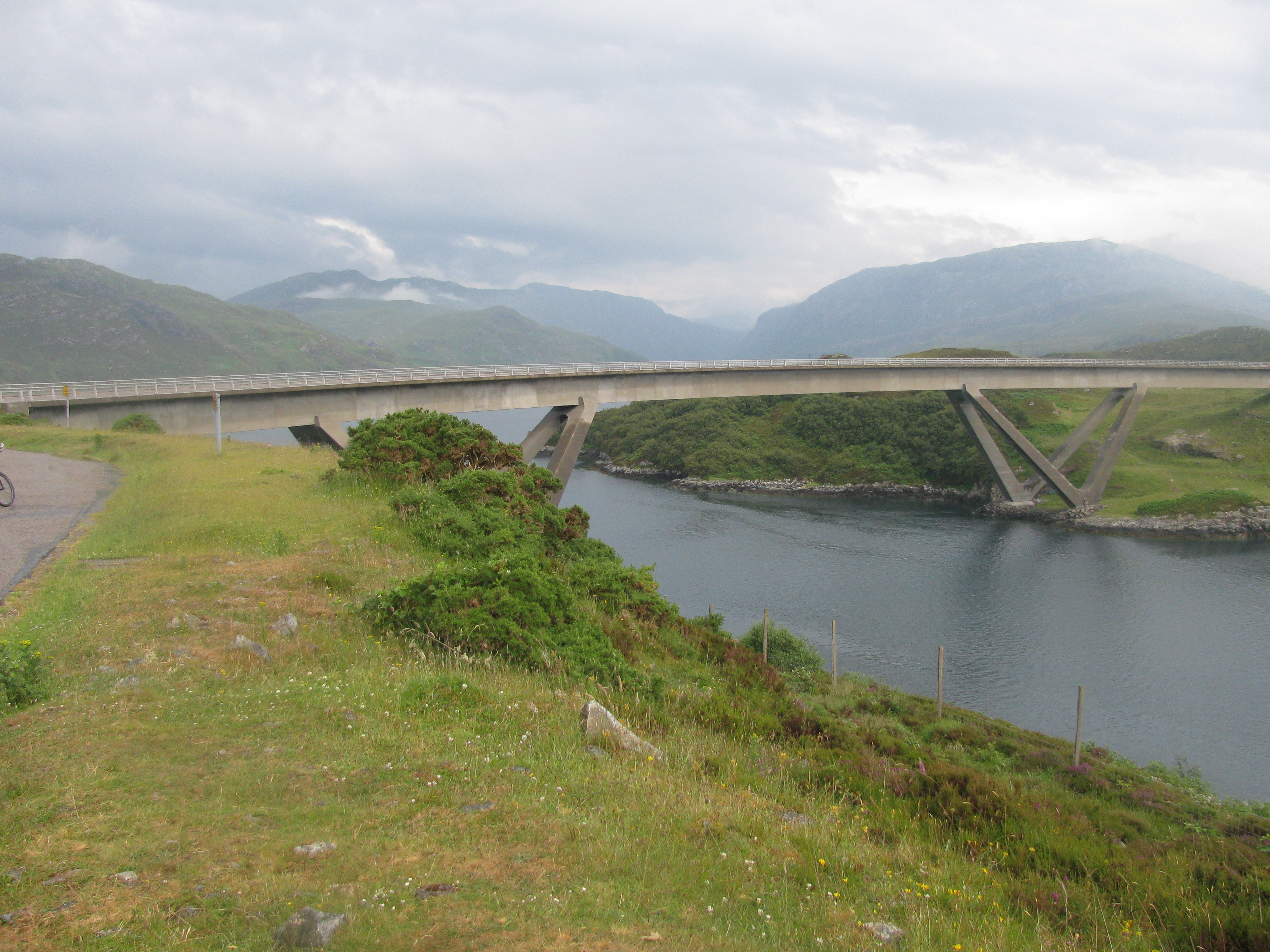 Road bridge of the A 894 over the Loch a' Chàirn Bhàin, Scotland